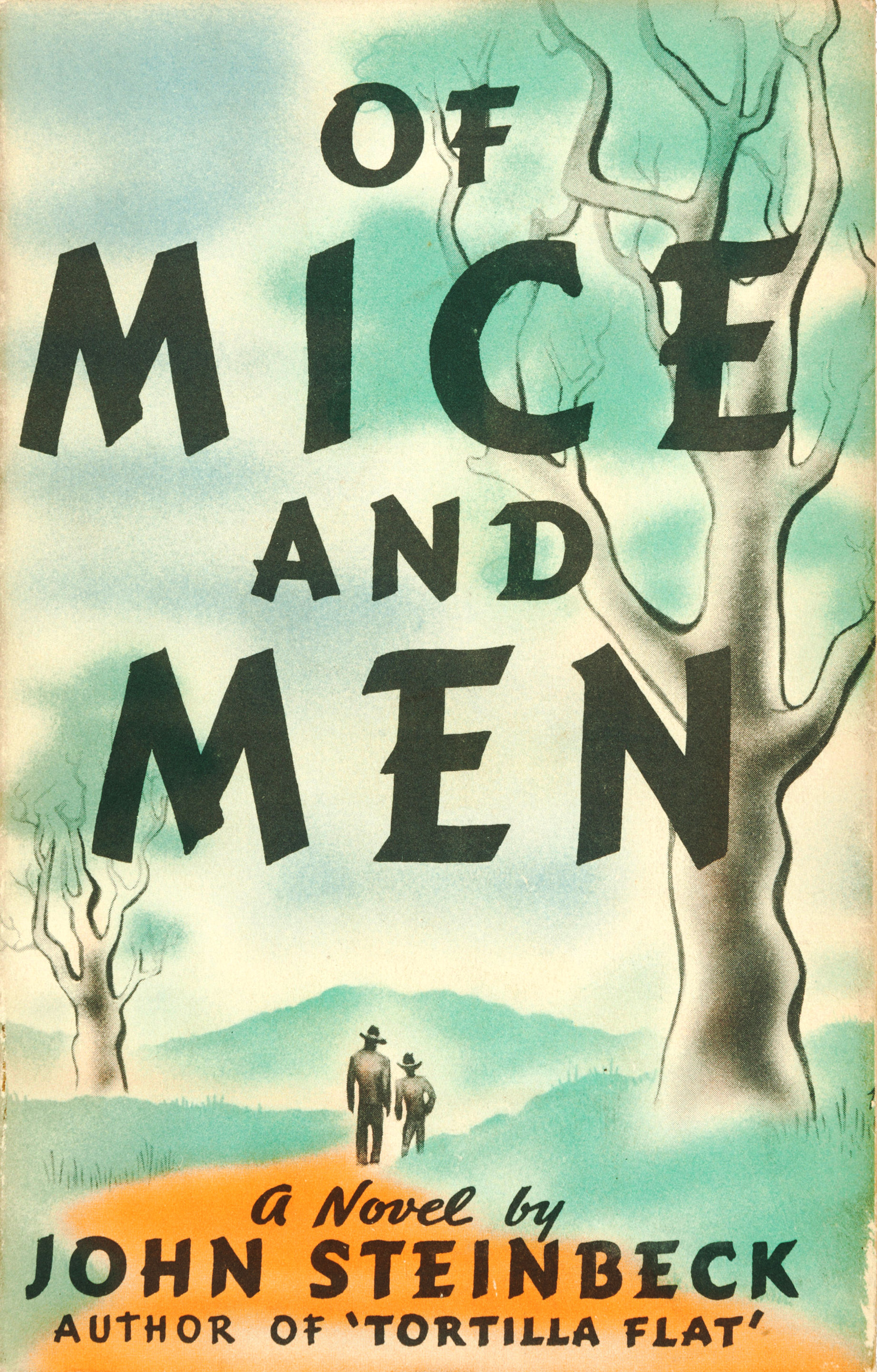 First-edition dust jacket cover of Of Mice and Men (1937) by the American author John Steinbeck.